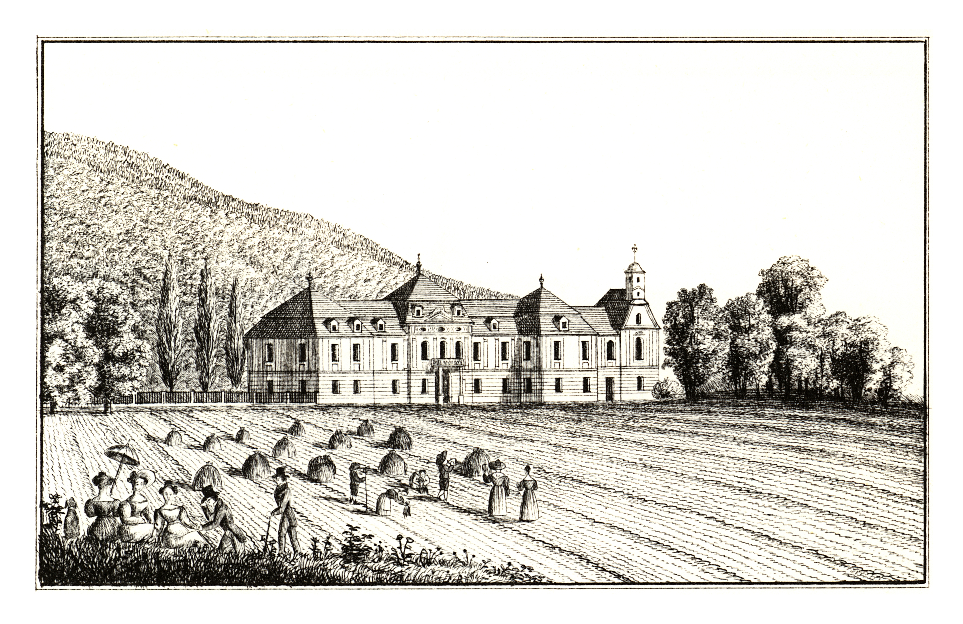 J. F. Kaiser - lithographirte Ansichten der Steyermärkischen Städte, Märkte und Schlösser, Graz 1824-1833 Joseph Franz Kaiser (1786–1859) Alternative names J. F. KaiserDescriptionAustrian printer and editorDate of birth/death 11 March 1786 19 September 1859Location of birth/death Graz (Styria) GrazAuthority control : Q1499963 VIAF: 30629353 ISNI: 0000 0000 3083 0153 LCCN: n87141671 GND: 129880159 NLP: A24960305 WorldCat creator QS:P170,Q1499963 . Scanprojekt Community Projektbudget 2012 This scan or this PDF-file was created within the GLAM-project Bookscanning, supported by Wikimedia Germany and Wikimedia Austria as a part of the community-project to capture books, documents and pictures which are not eligible to copyright or for which the copyright has expired. This document describes or depicts an object which is located in Austria today. Send requests for uncompressed scans to Hubertl. This work is in the public domain in its country of origin and other countries and areas where the copyright term is the author's life plus 100 years or fewer. You must also include a United States public domain tag to indicate why this work is in the public domain in the United States. This file has been identified as being free of known restrictions under copyright law, including all related and neighboring rights.